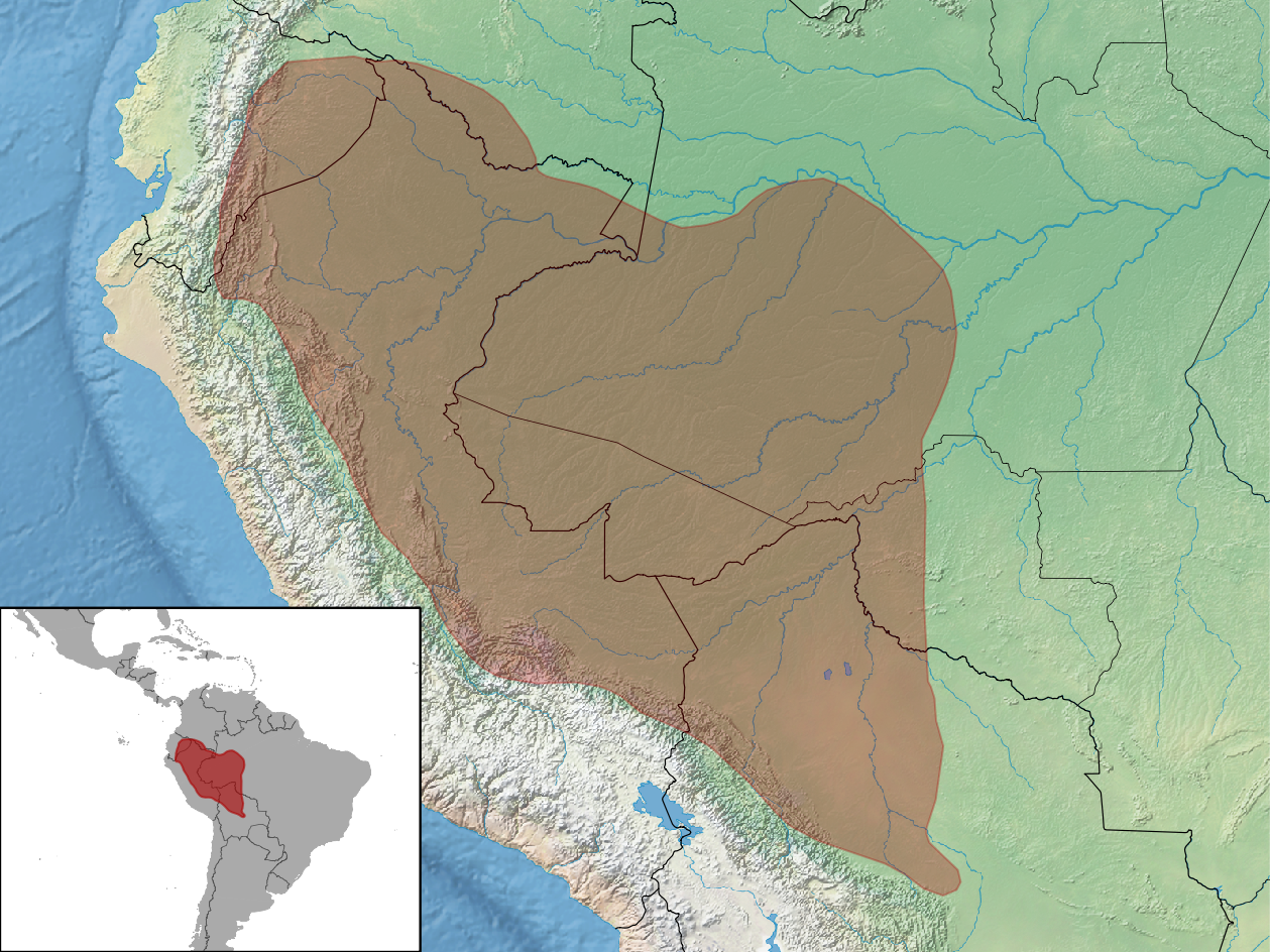 geographic distribution of Proechimys simonsi